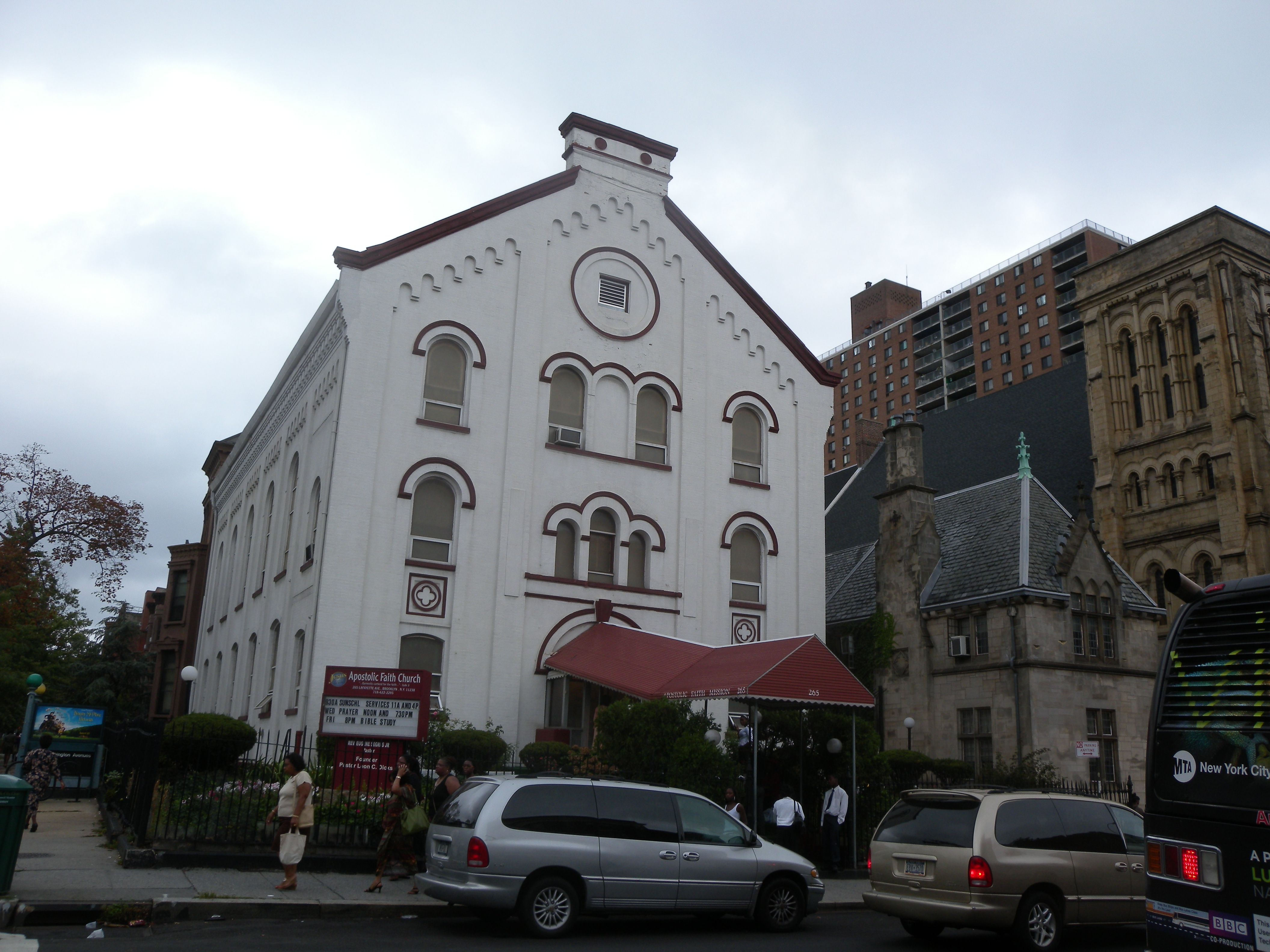 Looking northeast across Lafayette Avenue at former Quaker Meeting House on a rainy midday.